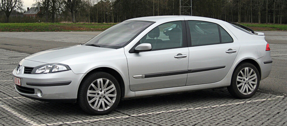 Renault Laguna Mk2